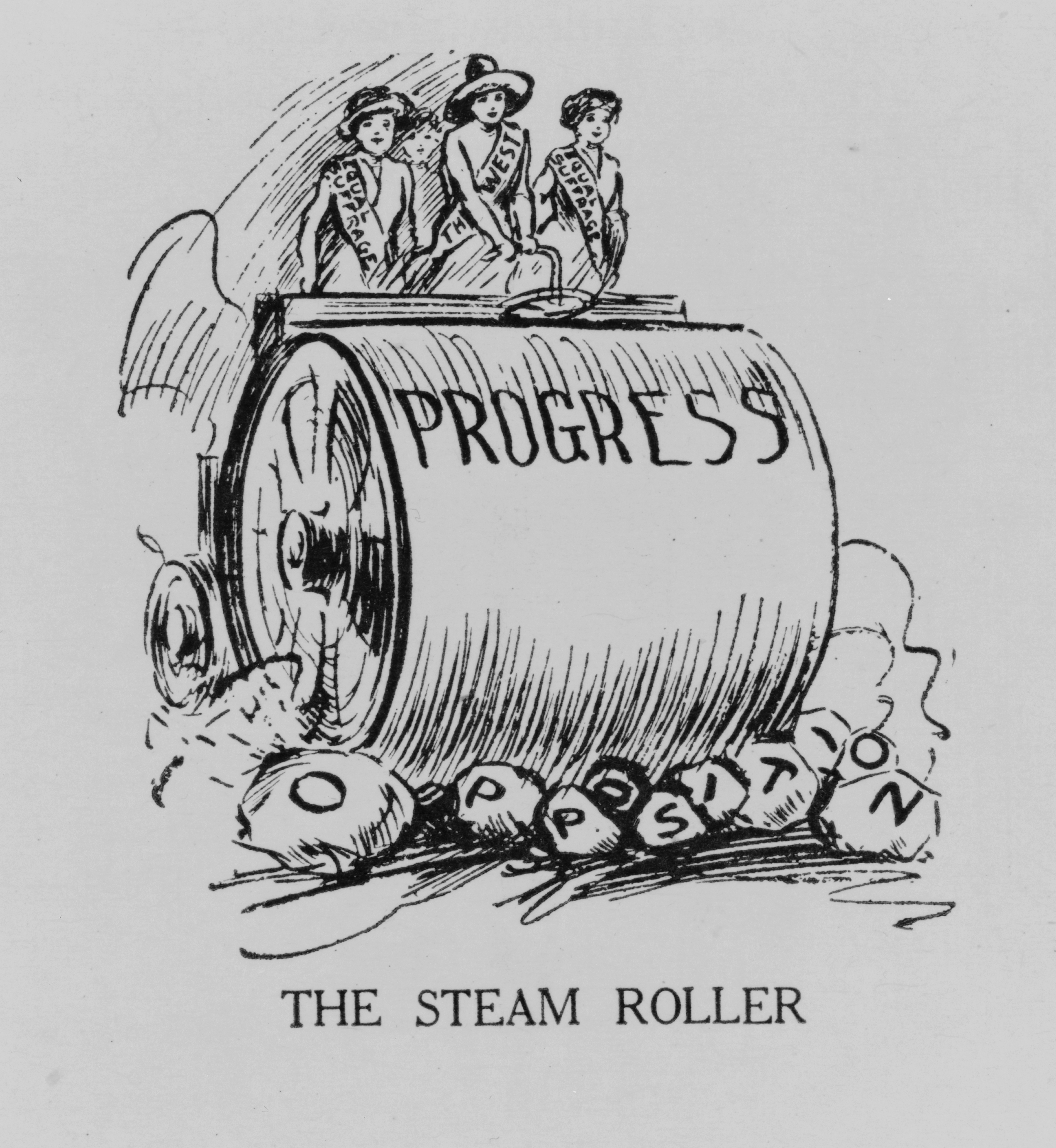 Political cartoon about suffrage in the United States. Four women supporting suffrage on a steamroller crushing rocks "opposition".